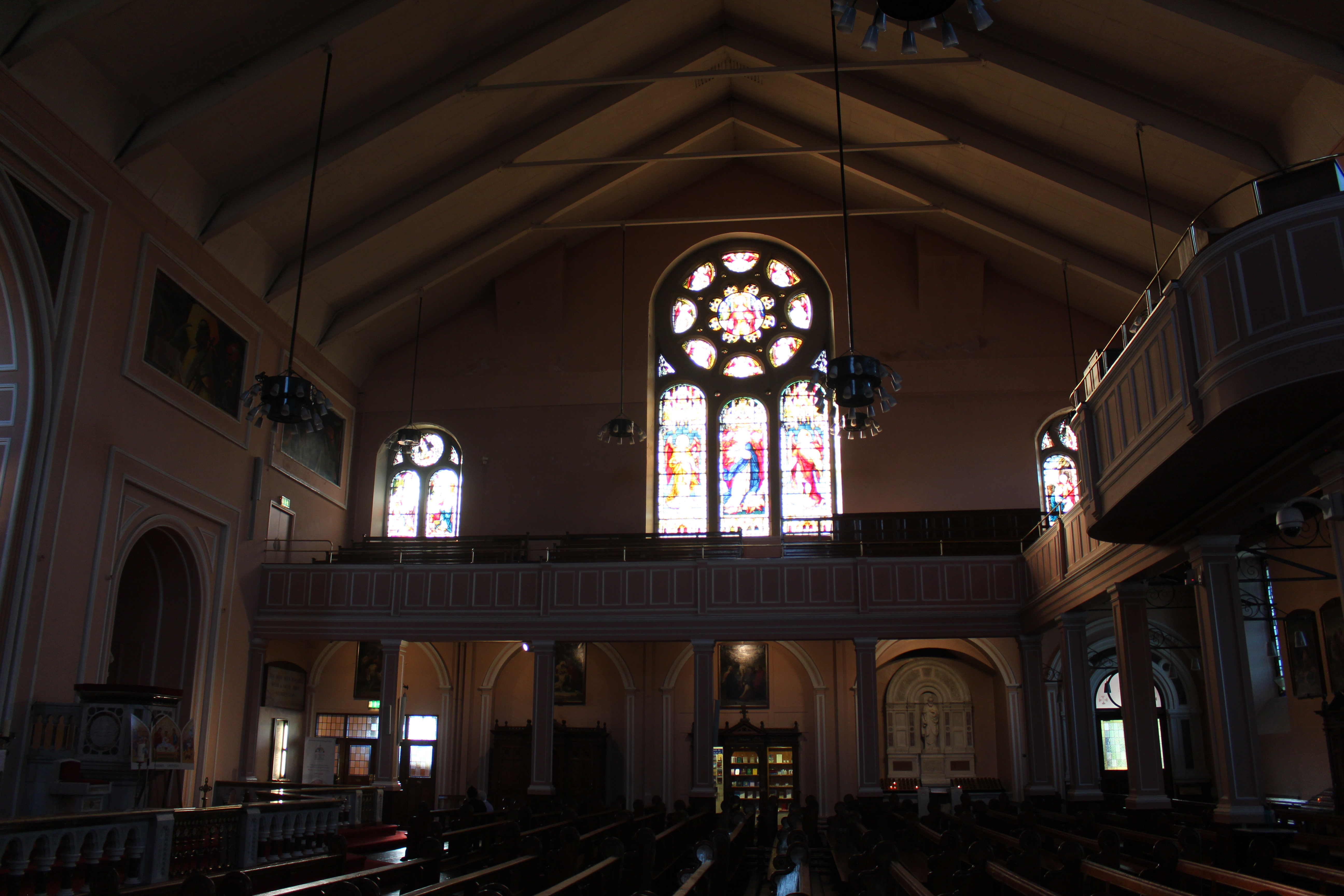 County Meath, St Mary's Church. Wikidata has entry Q55047481 with data related to this item.